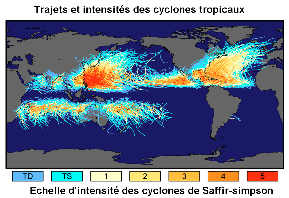 Tropical_Storm_Map_fr